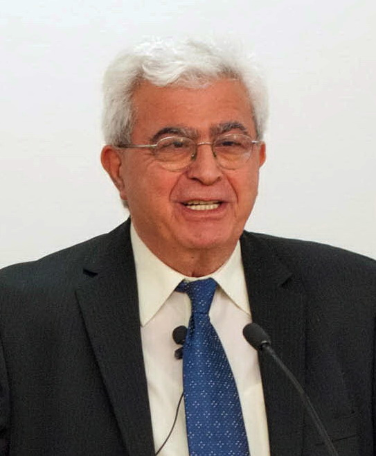 Europe Meets the Arab World with Elias Khoury and Jocelynne Cesari. At Boston University Photonics Center. Wednesday, March 2, 2016.